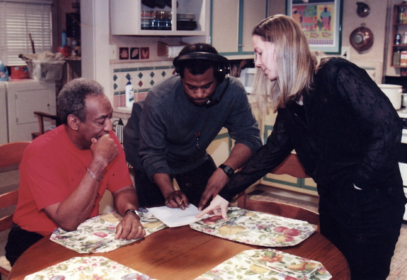 On the TV set in Astoria, Queens, where director Bobby Sheehan is working with Bill Cosby (left) to film a public service announcement or PSA for an anti-drug campaign run by the Partnership for a Drug-Free America, now called Partnership at . Advertising executive Ginna Marston (right) discusses the script with Bill Cosby while a production assistant (center) looks on.